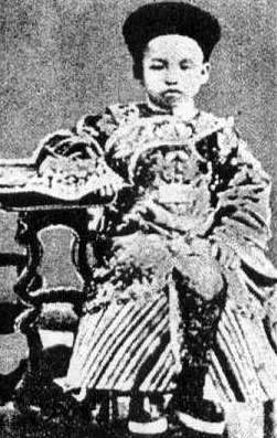 Emperor Guangxu as a child (not confirmed)